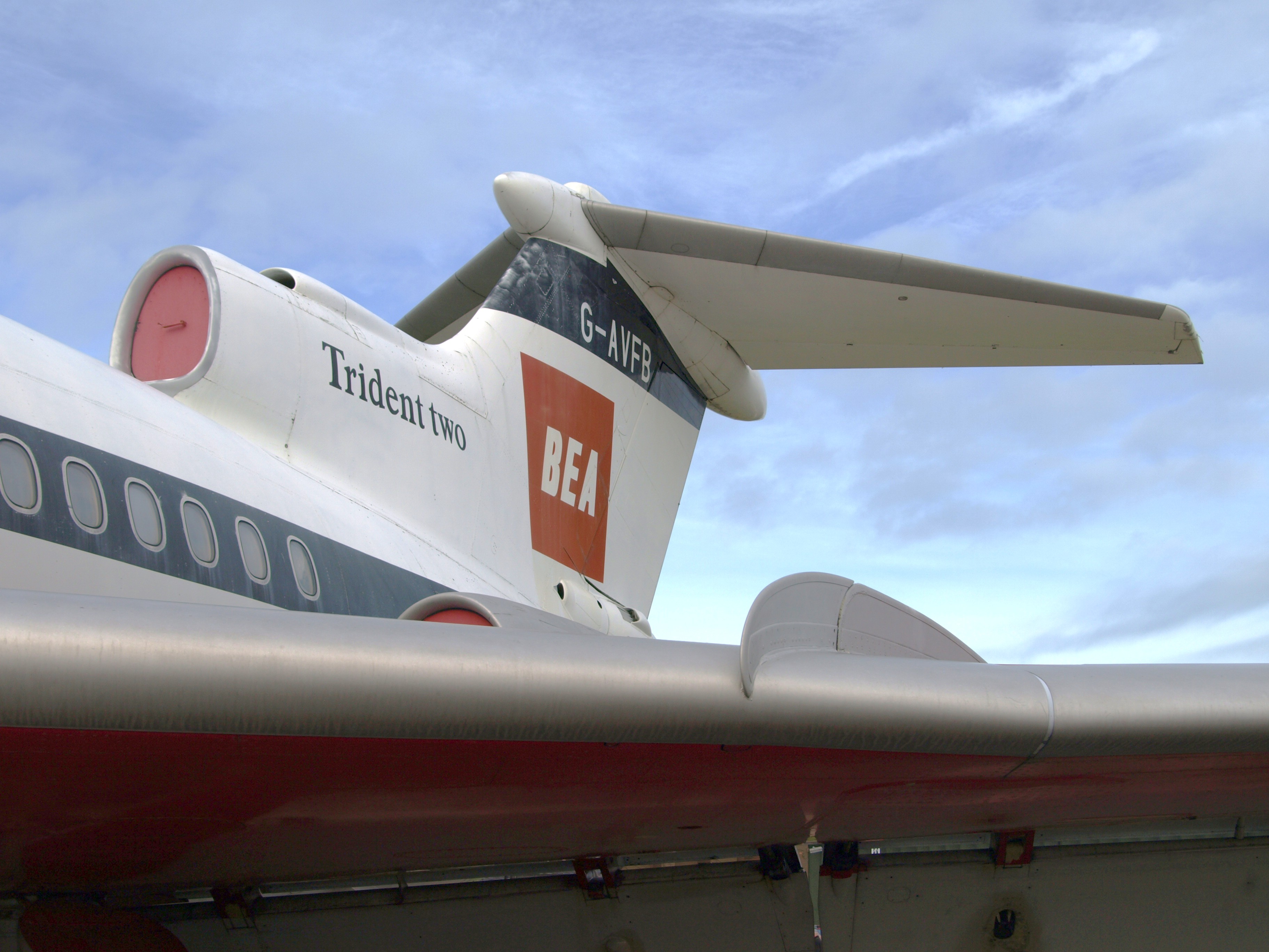 T-tail and stowed wing leading edge devices of a Hawker Siddeley Trident aircraft. Image taken at the Imperial War Museum Duxford.